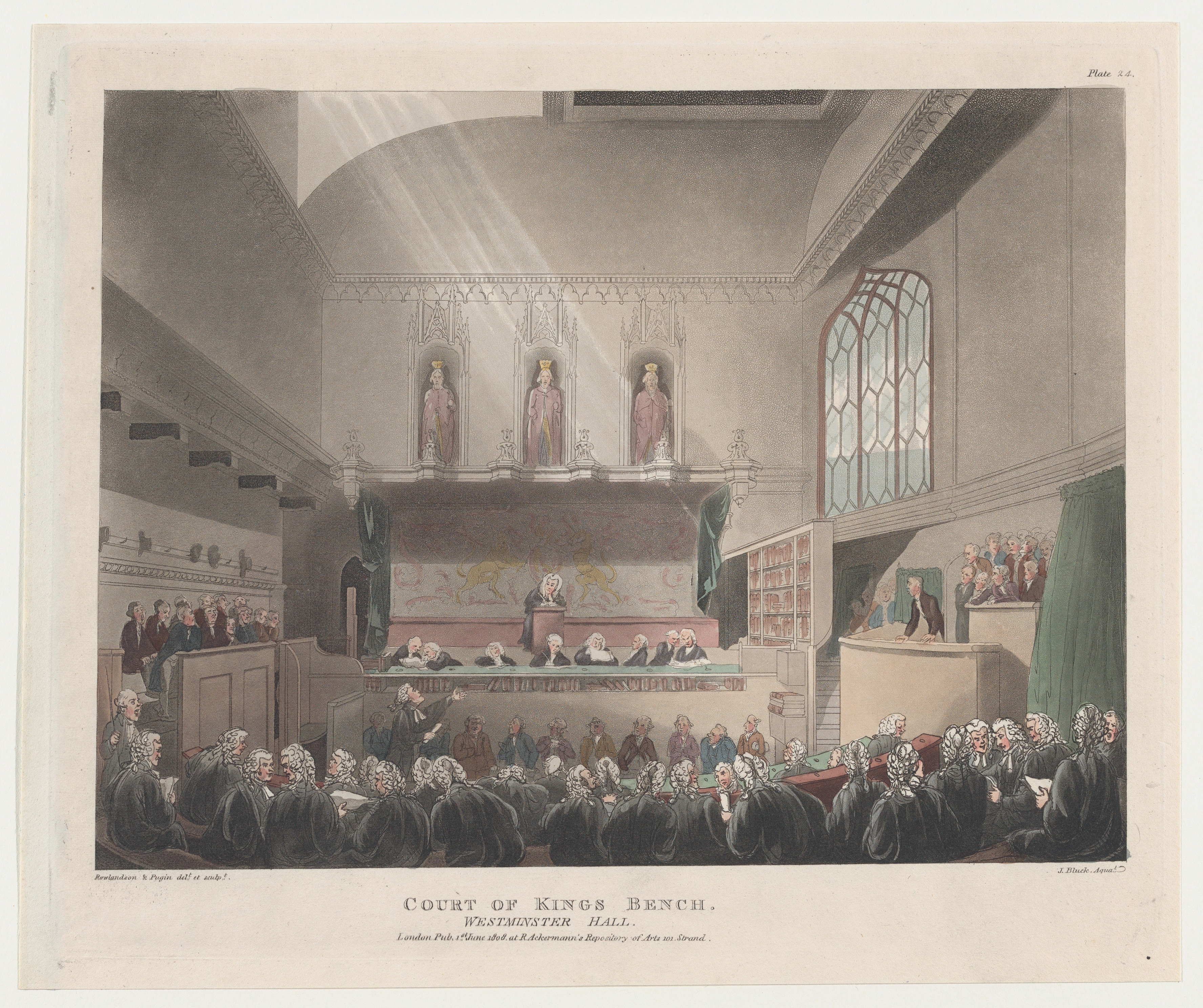 Print; Prints